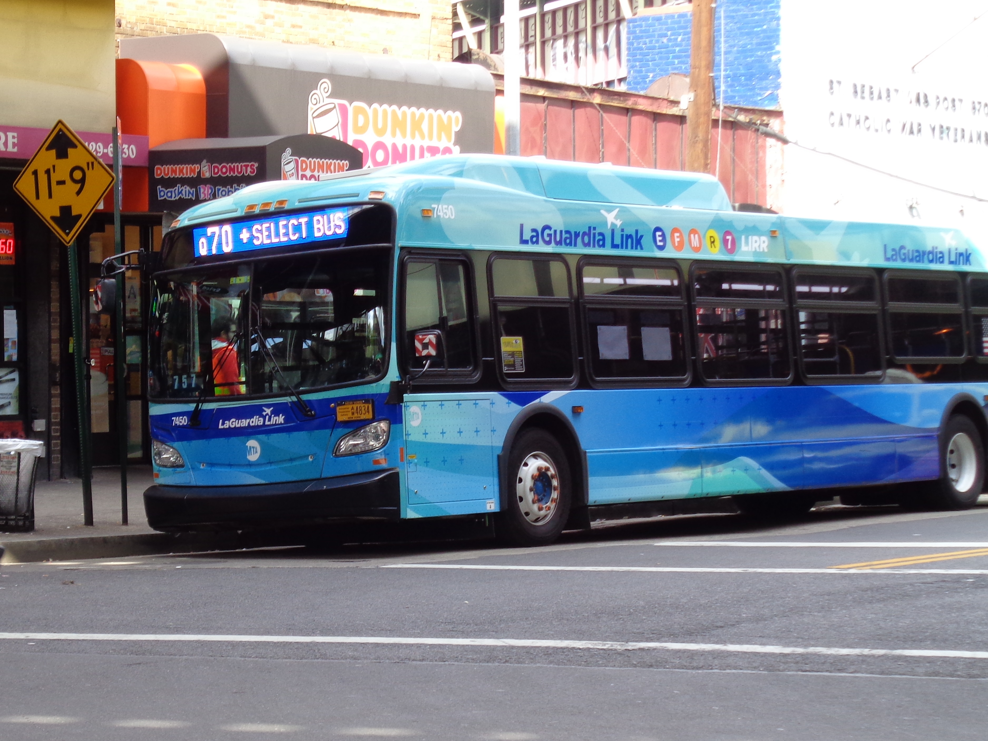 A Q70 Select Bus Service laying over at 61st Street and Roosevelt Avenue under the 61st Street–Woodside subway station in Woodside, Queens. The layover area is shared with the Q53. This bus features the typical Select Bus Service paint scheme, but does not say "Select Bus Service", instead only sporting "LaGuardia Link" logos. It also is not branded as "MTA Bus", but rather features only MTA decals.